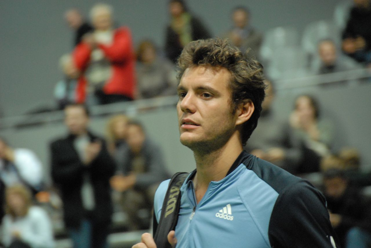 Paul-Henri Mathieu at the 2008 Masters France tennis exhibition